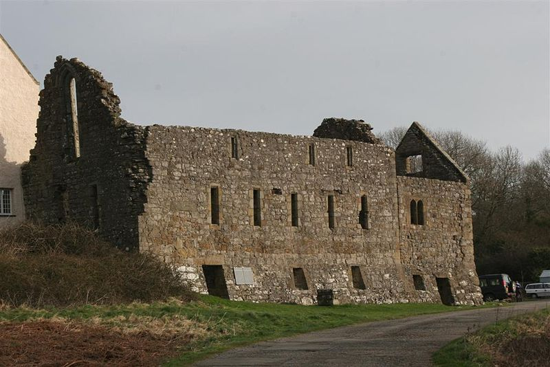 Penmon Priory, Anglesey